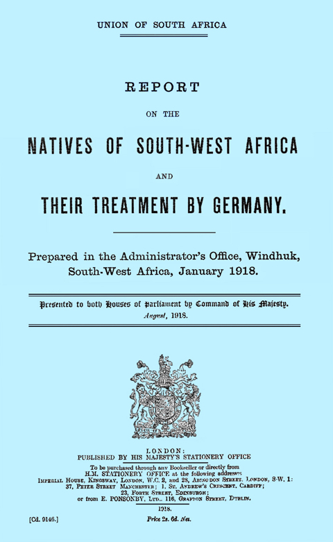 Cover of the 1918 British "Bluebook", whose topic was the genocide of the Namibian aborigines in what was then called German South-West Africa (GSWA)